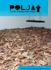 Cover of the issue No. 502/LXI/2016. The cover image is subject to international laws of copyright of the Polja magazine by Cultural Center of Novi Sad (Kulturni centar Novog Sada). It should be mentioned in connection with the center and its publication. In principle, violations of the rights (reputation damage, defamation) are legally punishable. All rights reserved by the administration of the Center.